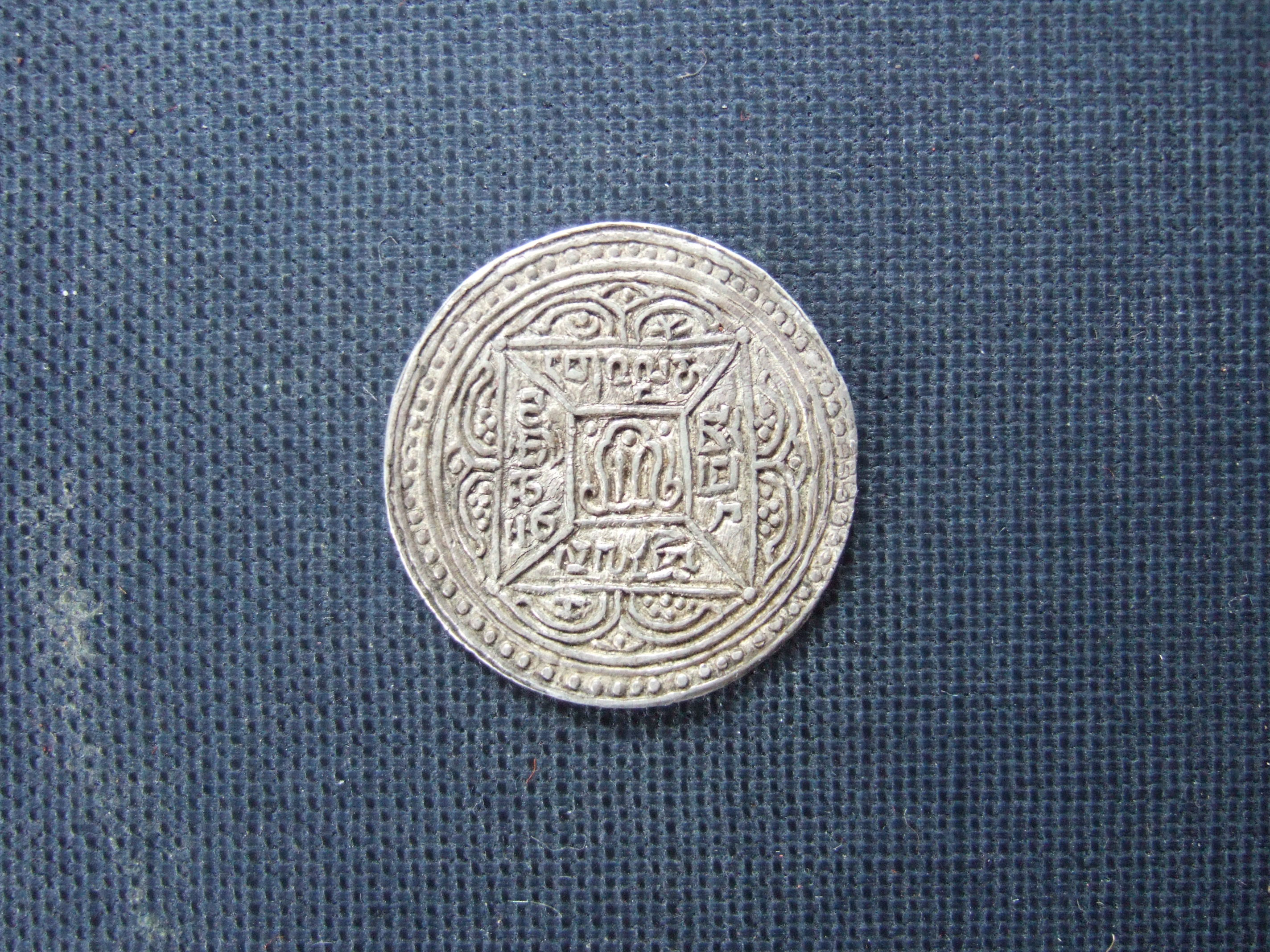 Tibetan undated kelsang tangka (tangka presented to monks), obverse